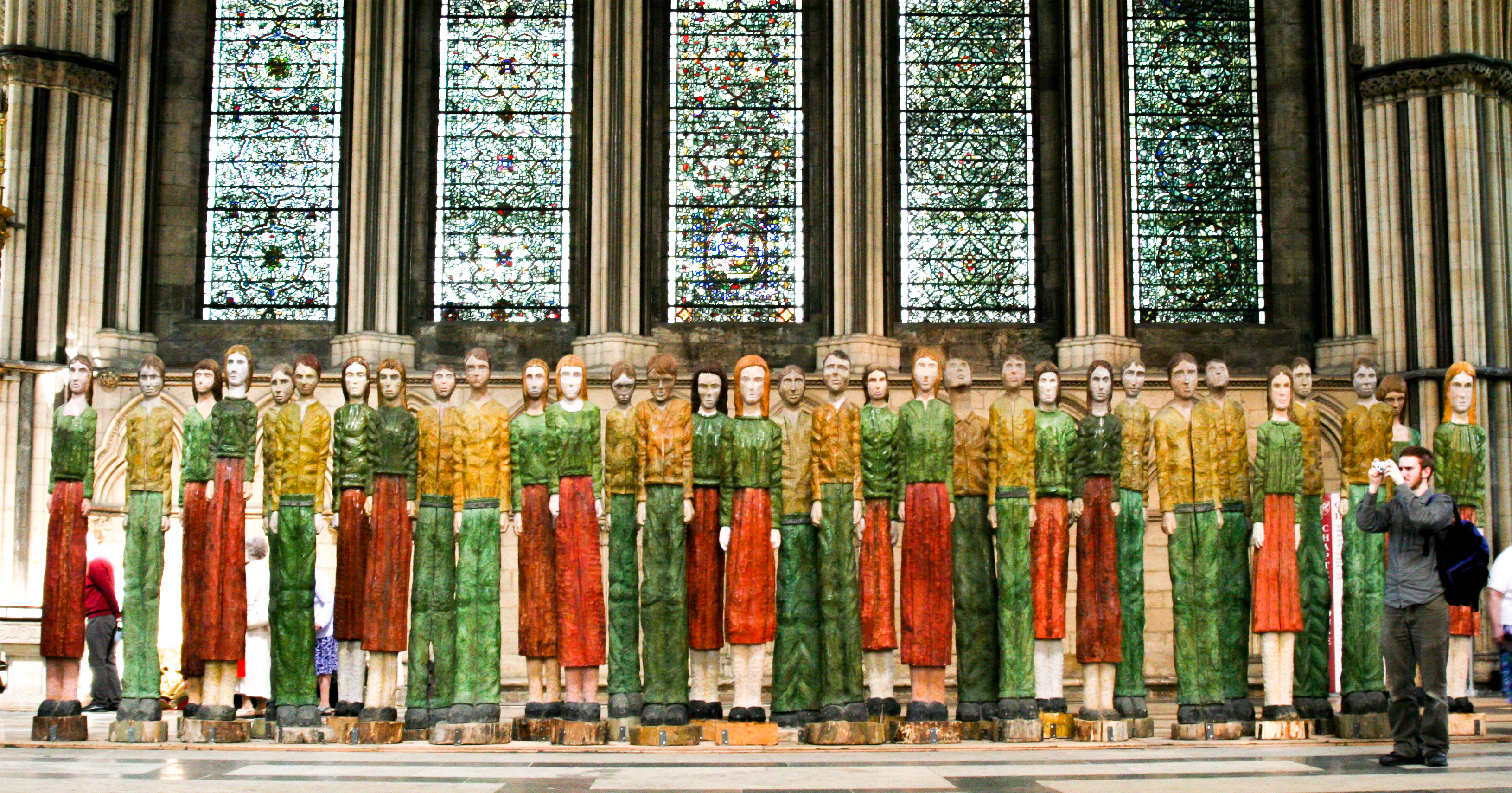 Exhibition of Odyssey figures in York Minster, UK in 2008 by sculptor Robert Koenig